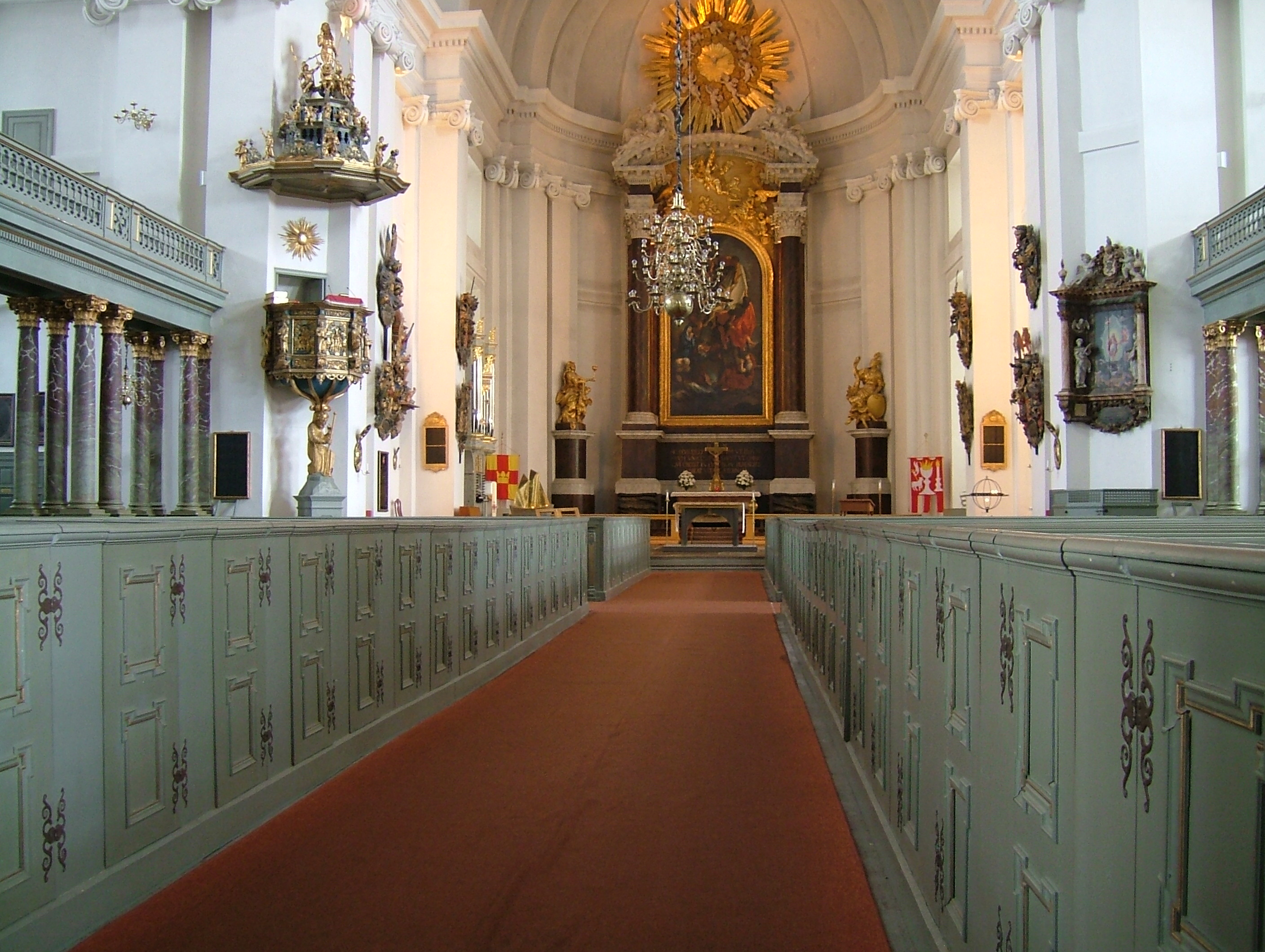 Kalmar Cathedral. Interior prior to recent internal renovation